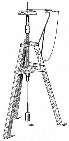 Figure 170 from Thing to make: Charles Benham's harmonograph.